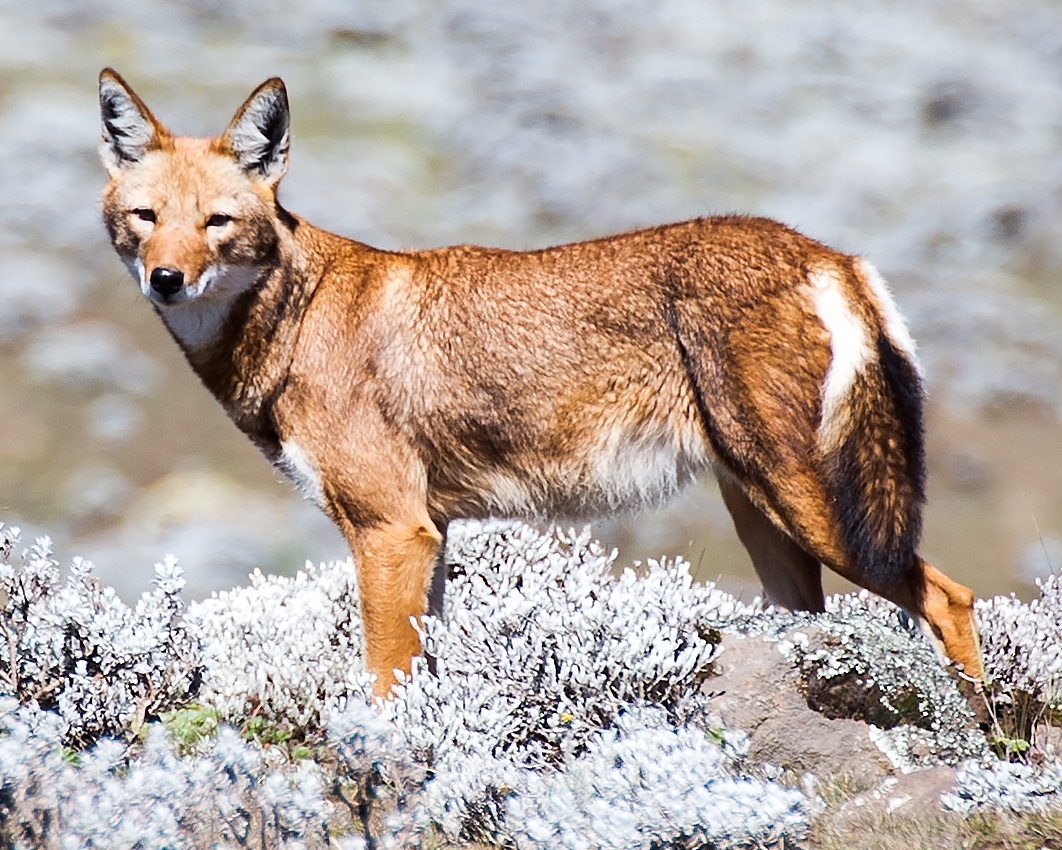 Ethiopian wolf, Oromia, Ethiopia.